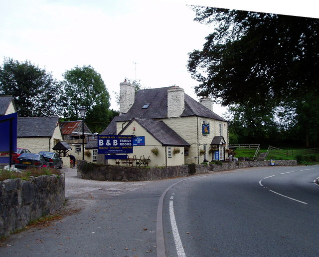 Tafarn yr Afr, Maerdy. The Goat Inn, on the A5 at Maerdy.